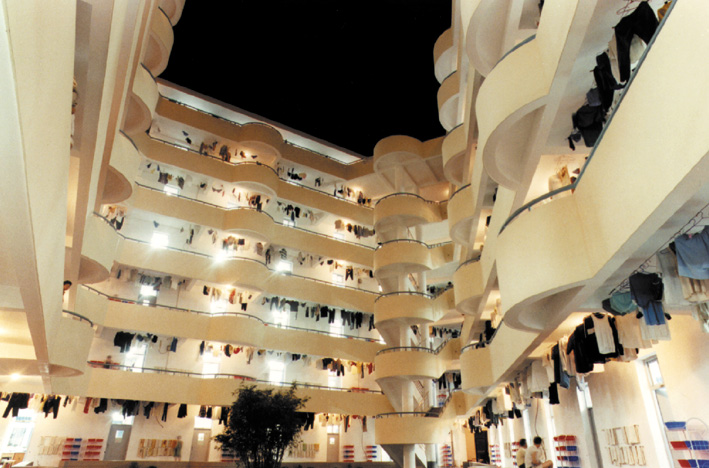 apartment of hunan university